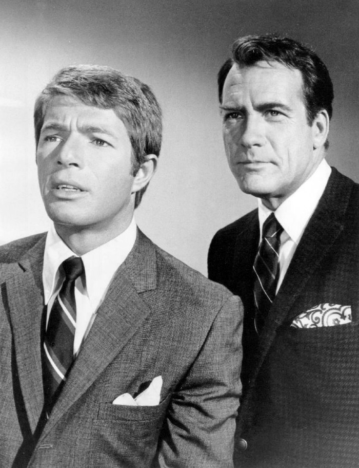 Photo of Stephen Young and Carl Betz in the television program Judd for the Defense.